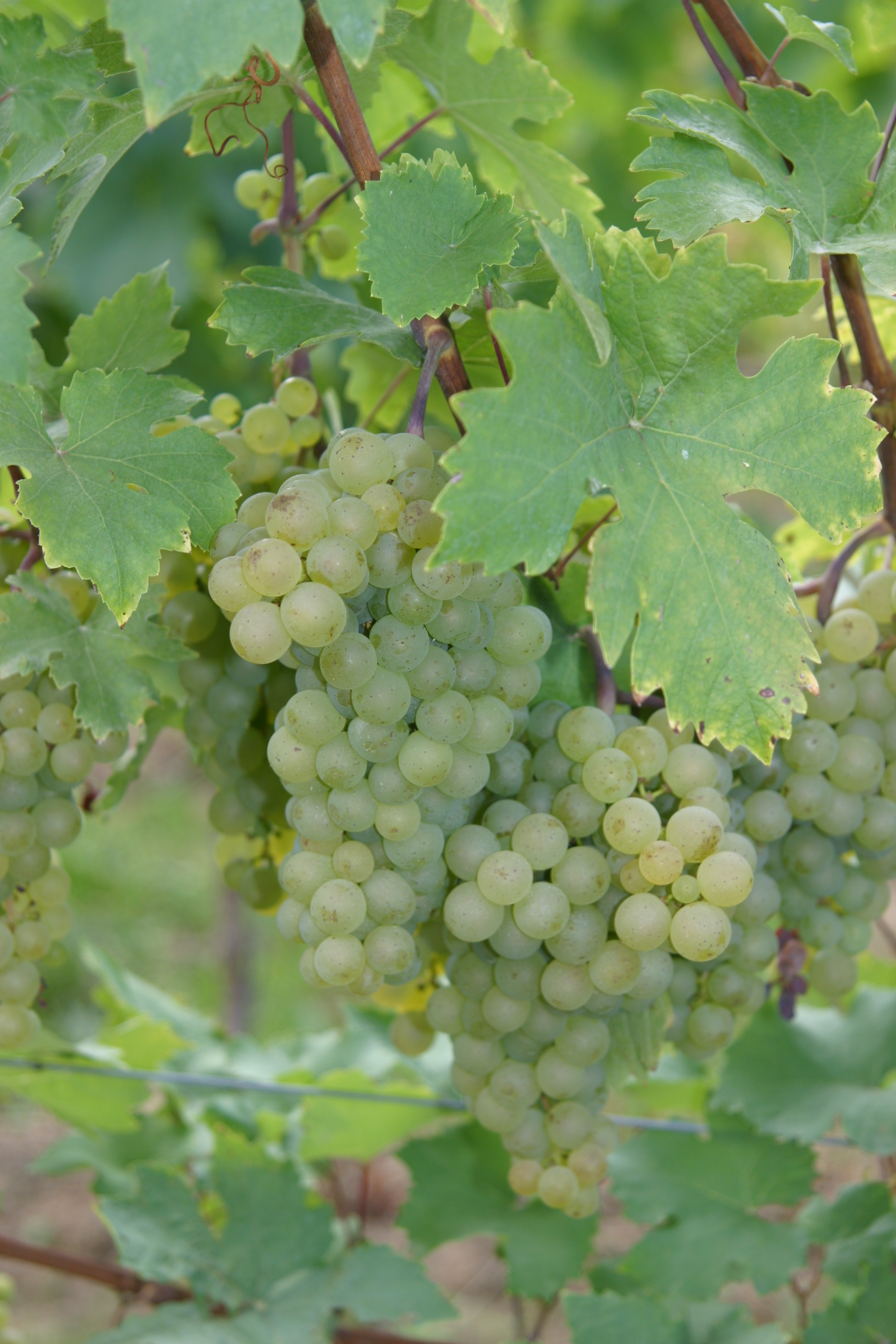 Leafs and grapes of the white grape variety Ehrenbreitsteiner.